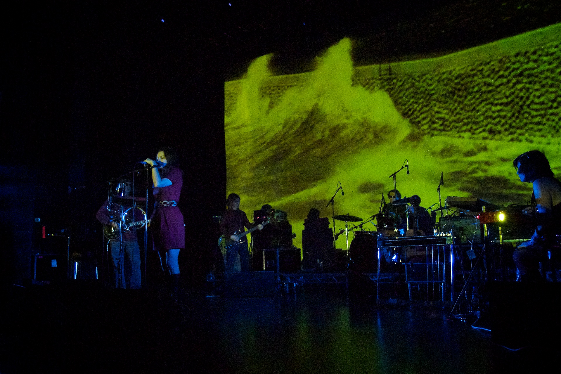 I try not to use flashes at a gig. I don't think it's fair on the performers. But there was no front lighting at this gig. If artists want people not to use their flashes, then light the stage. It wasn't like the images they were projecting were worthwhile.